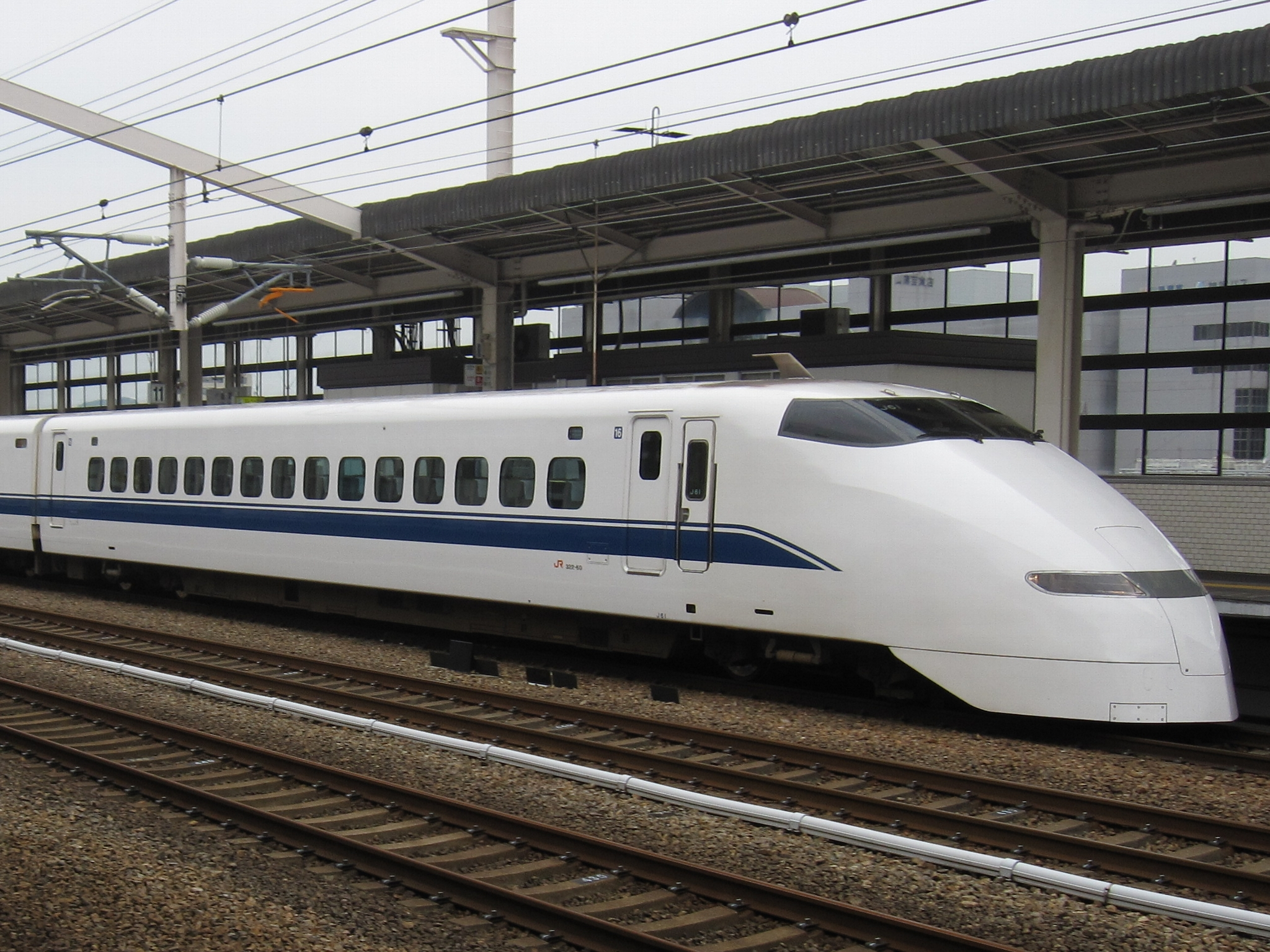 Shinkansen series 300(322-60)